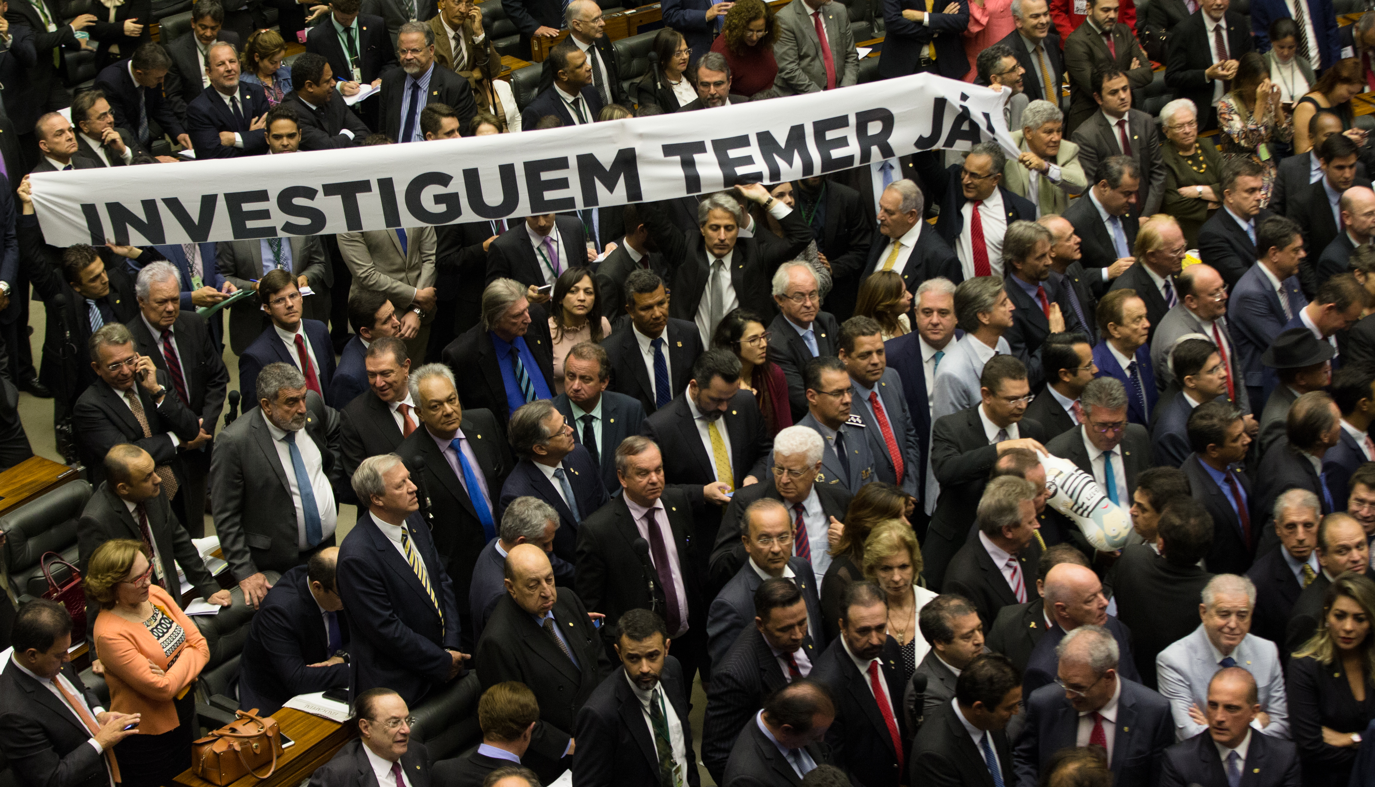 Brasília- DF 02-08-2017 Sessão da câmara durante votação da denúncia contra Temer.Foto Lula Marques/Agência PT